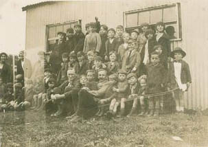 Pierre Ceresole on a workcamp in Brynmawr, Wales, 1931.